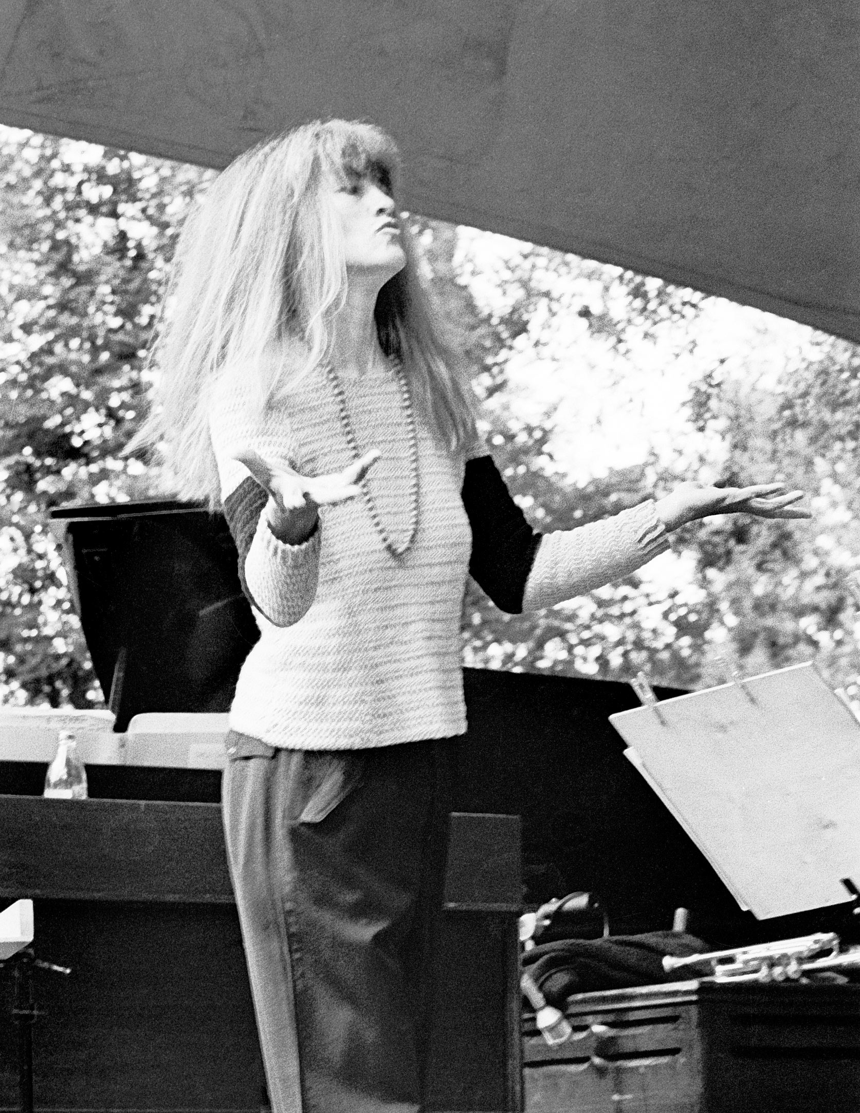 Carla Bley conducts her band at the Pori Jazz Festival in Finland, 1978.